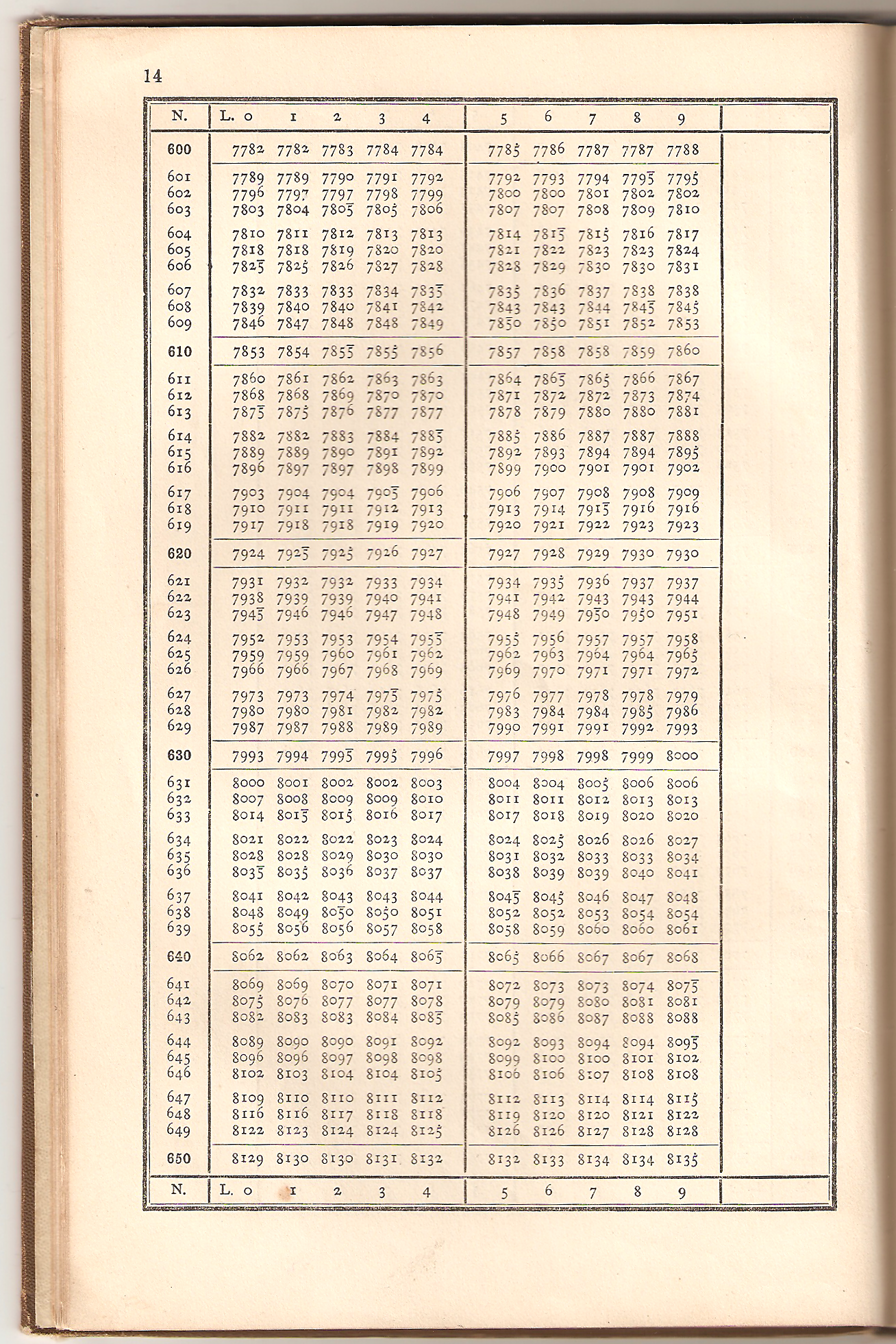 Scan of a logarithmic table from 1912.